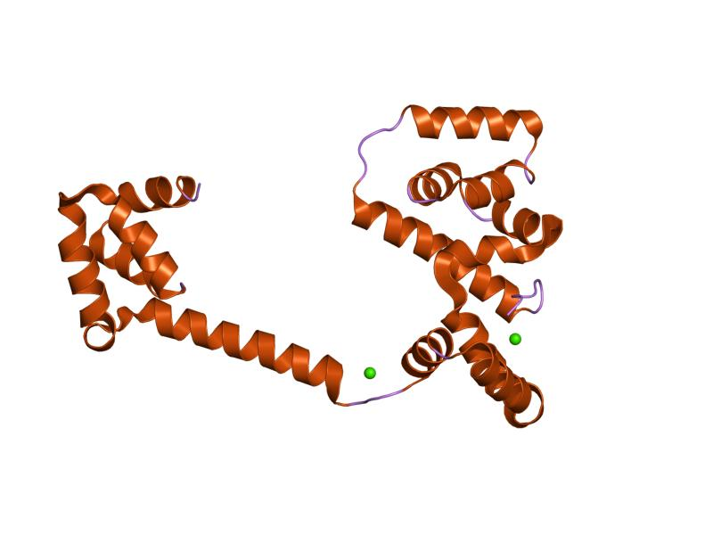 Cartoon representation of the molecular structure of protein registered with 1lkv code.